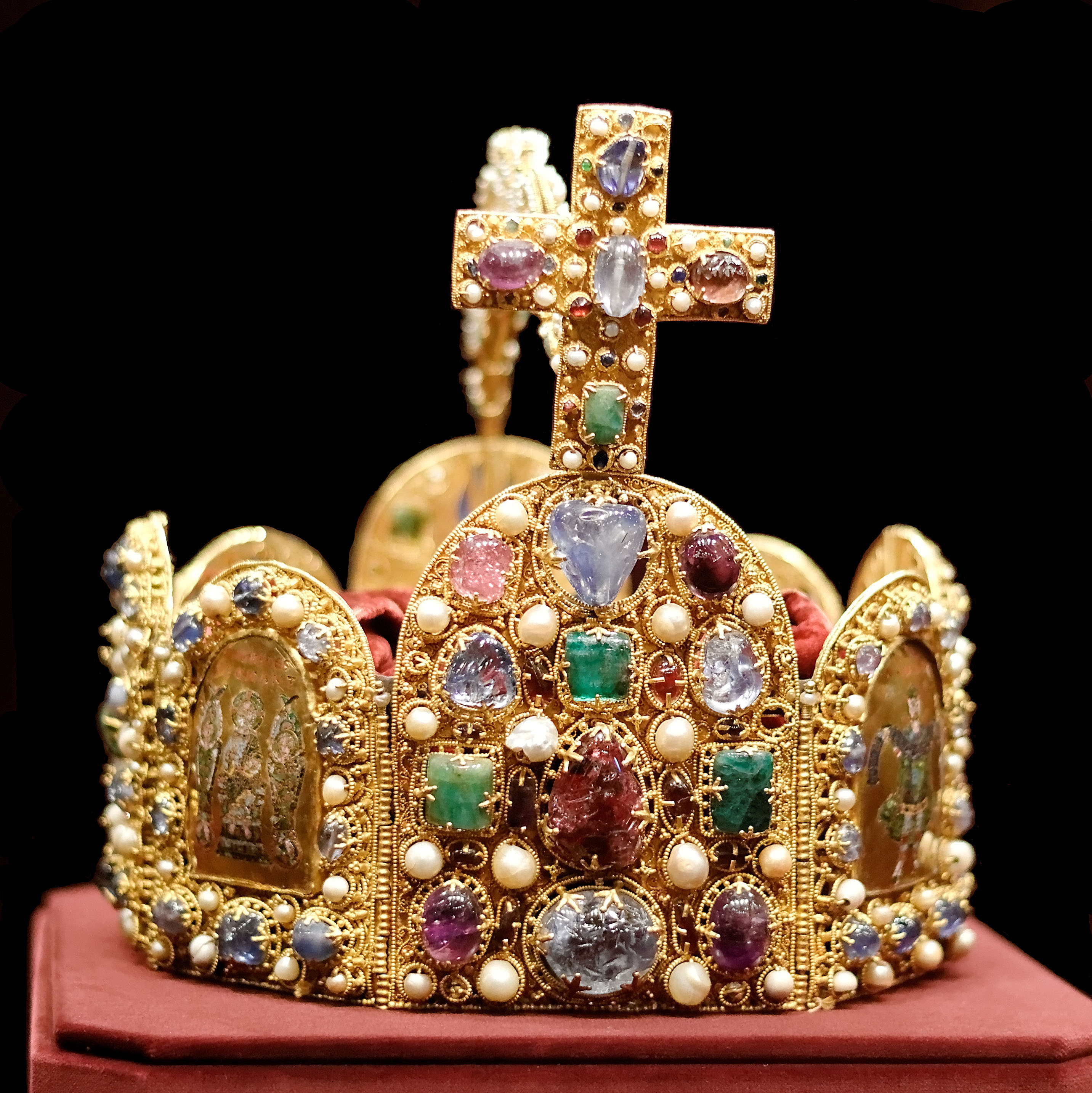 Imperial Crown of the Holy Roman Empire